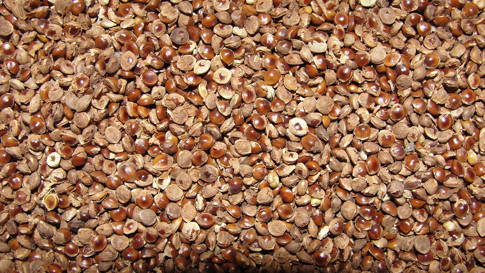 A closeup of Varagu millet with husk.